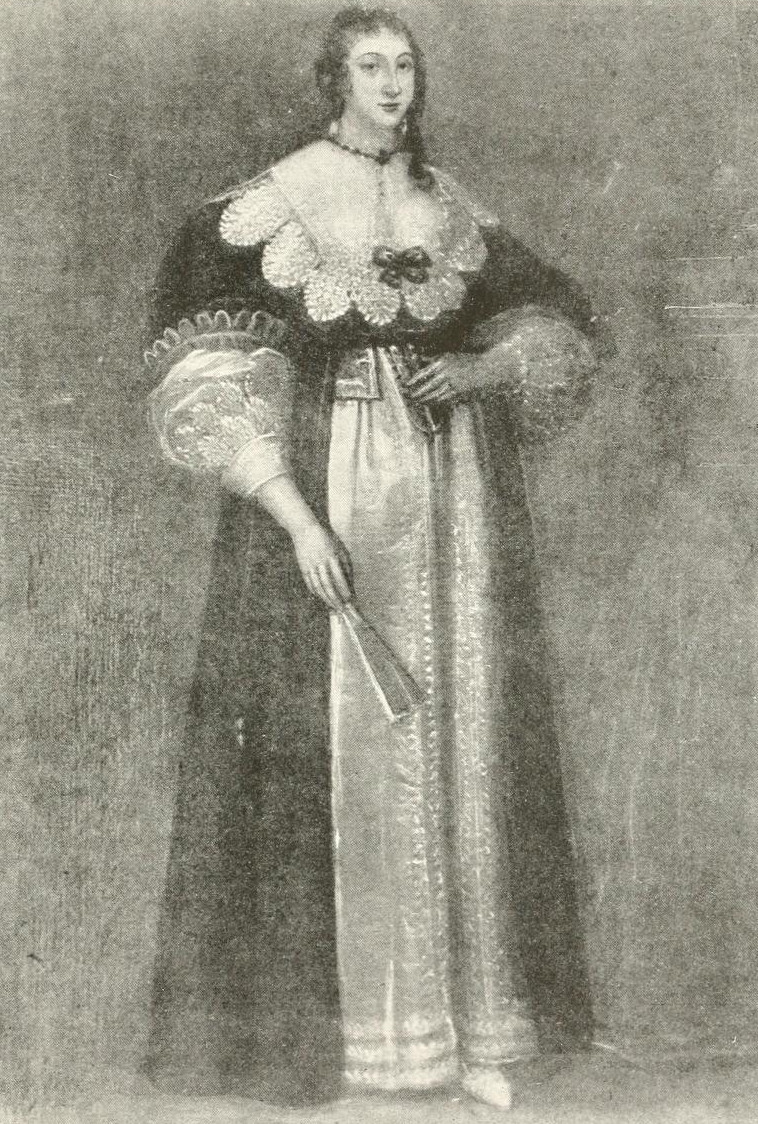 Lady Elizabeth Corbet, nee Boothby, (died 1658), wife of Sir Andrew Corbet MP. Photo of an early 17th century oil painting.